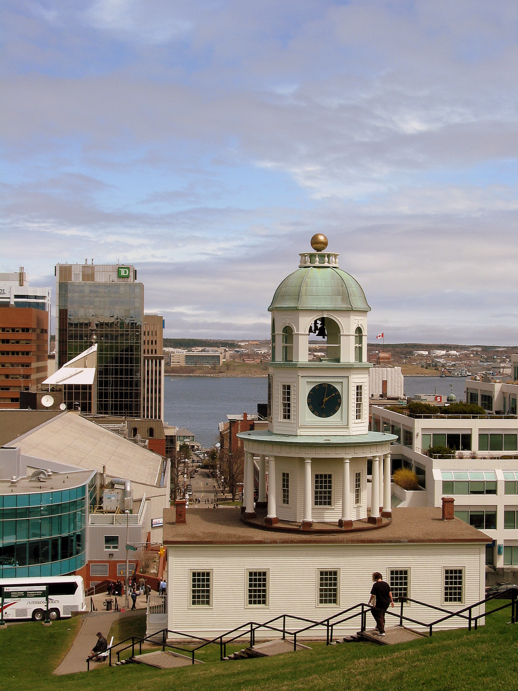 Looking out over the downtown area.